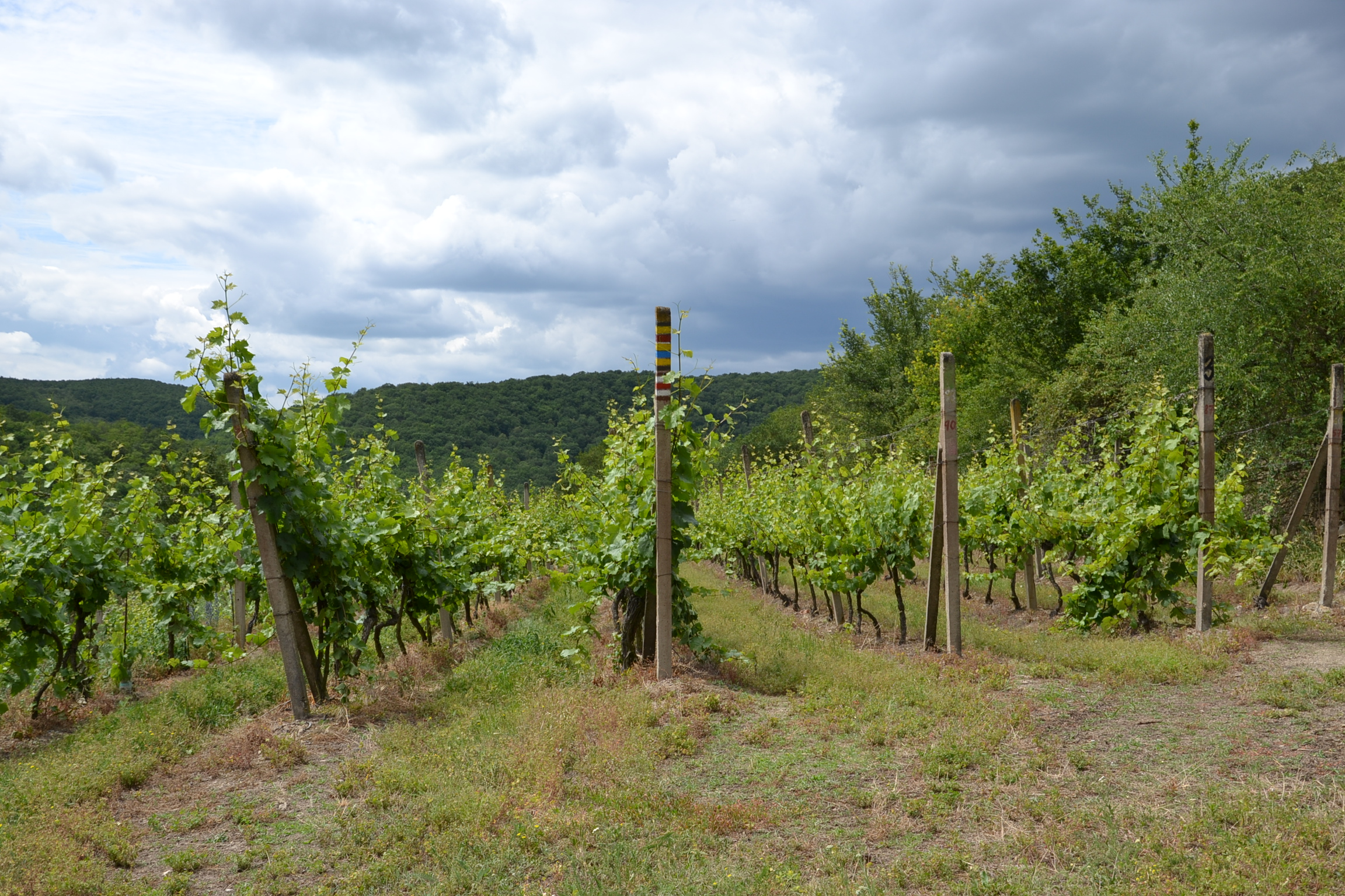 Podmolí, Znojmo District, Czechia. Šobes vineyard.